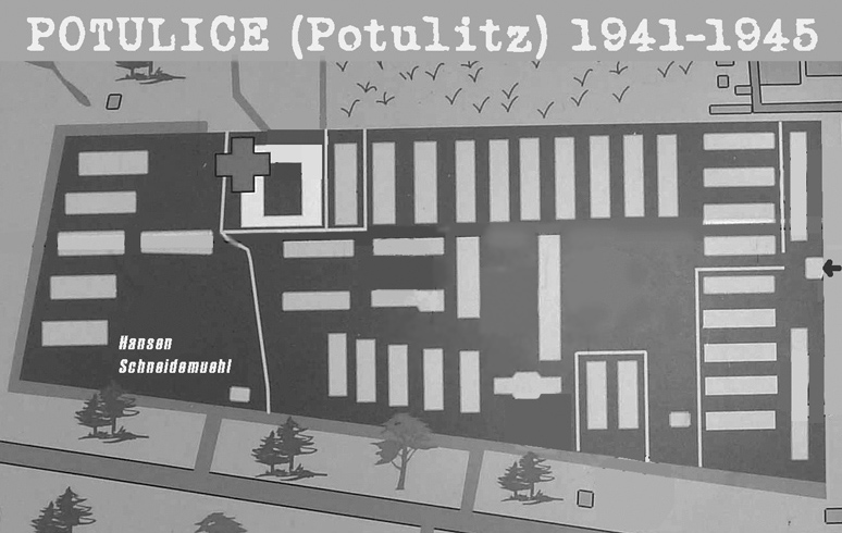 Potulice concentration camp established during World War II by Nazi Germany on the territory of occupied Poland in Potulice near Nakło. The total of 25,000 prisoners went through the camp during its operation.